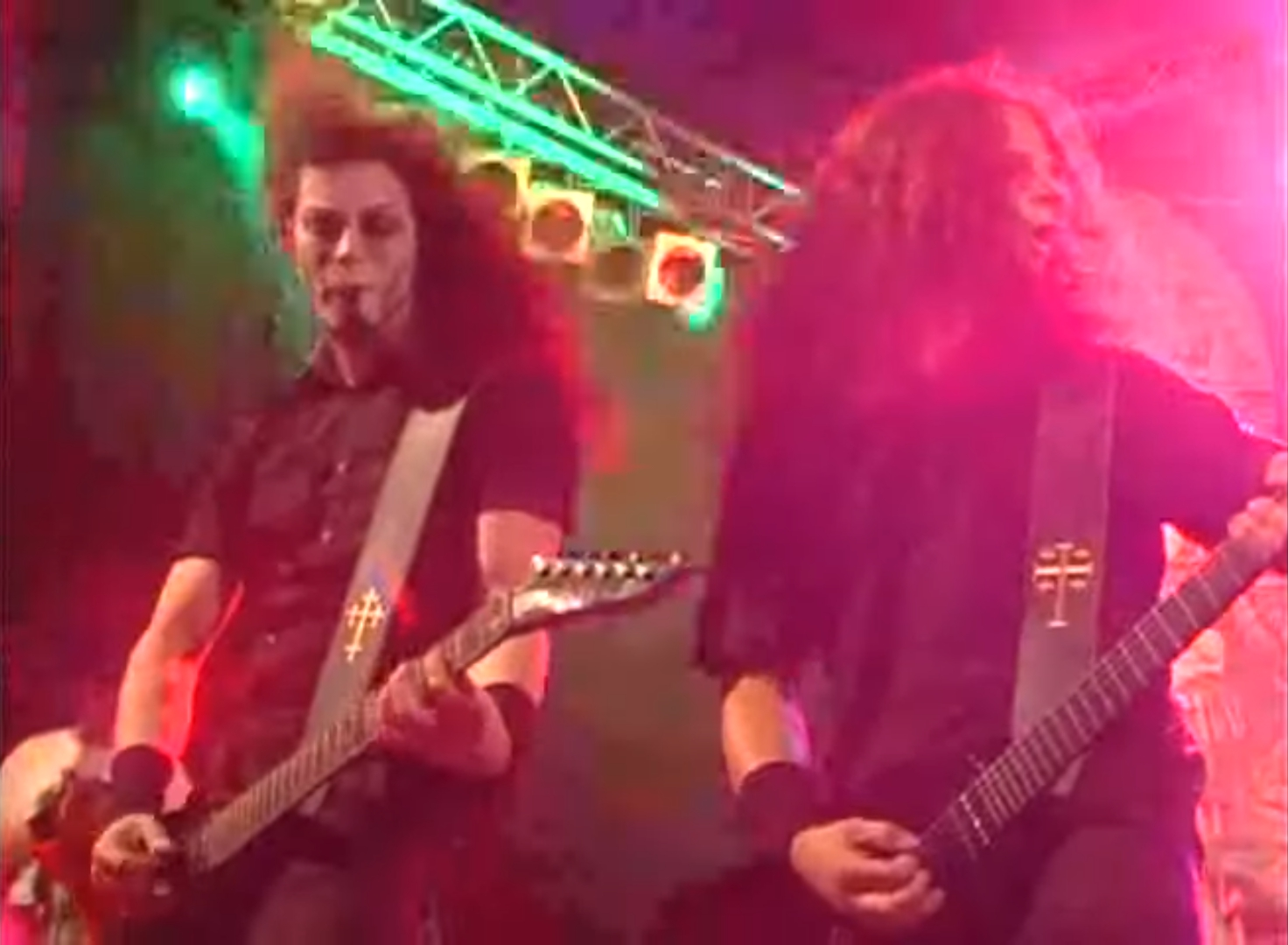 Powerwolf live 2009.